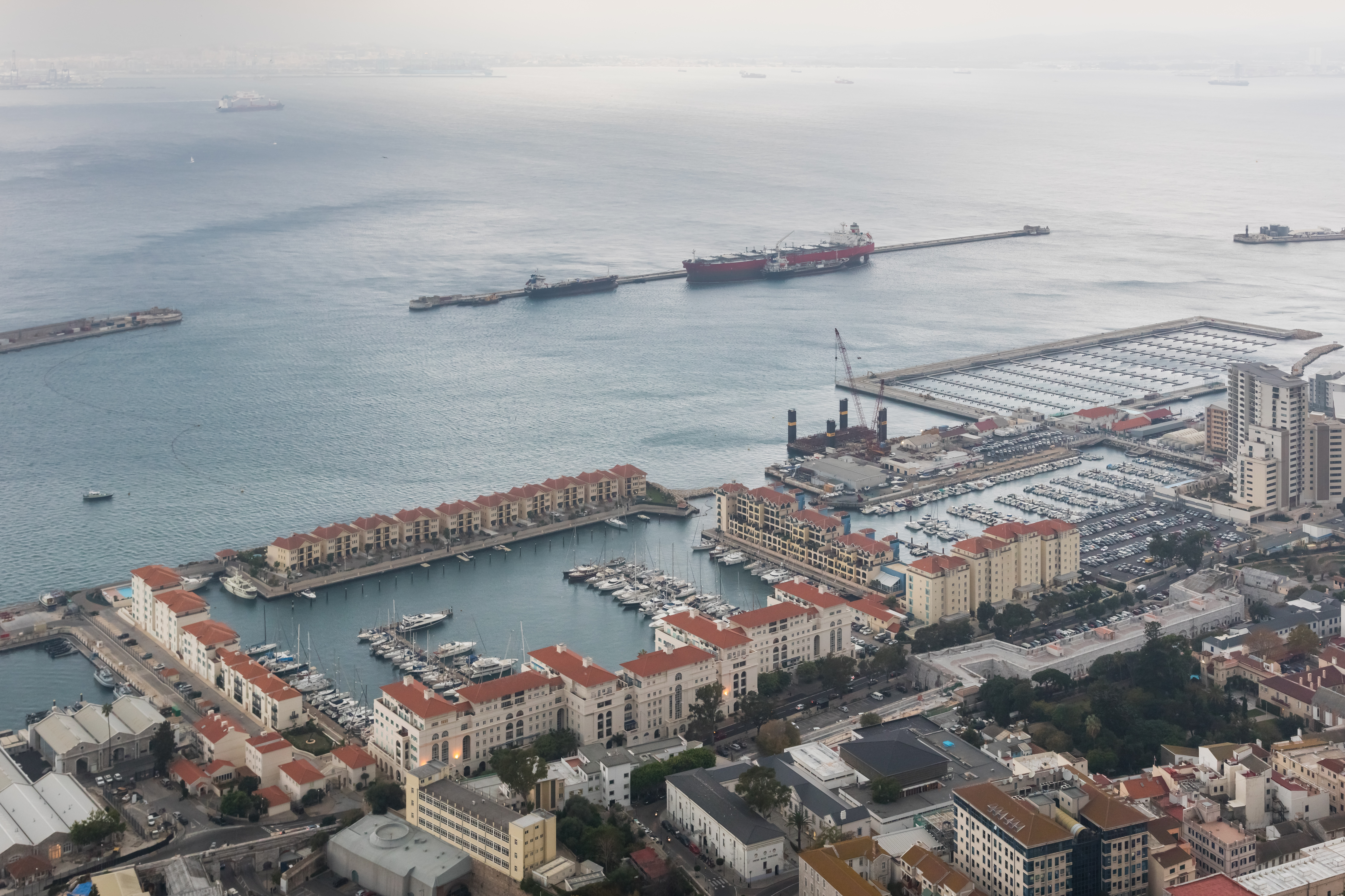 View of Gibraltar